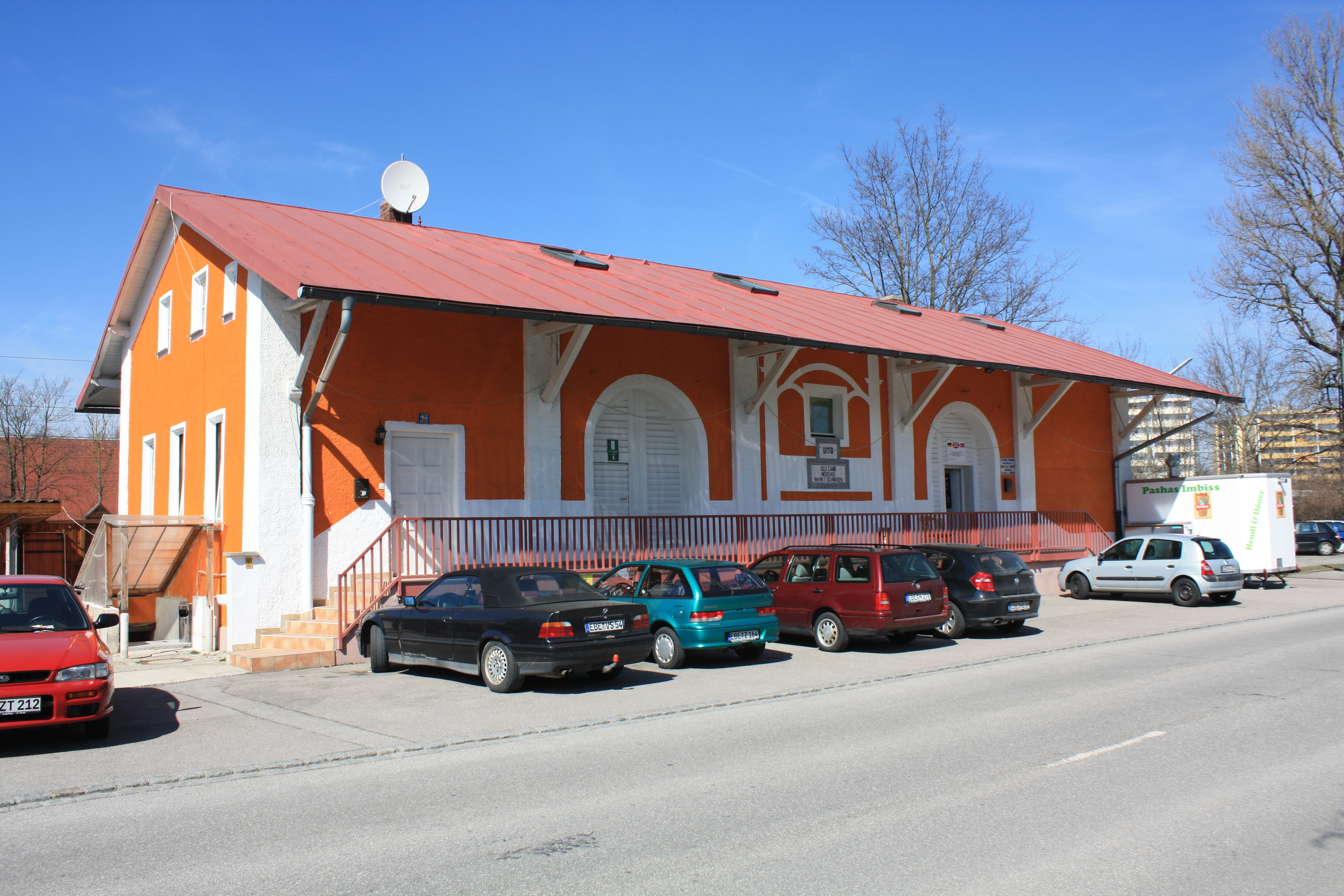 Ulu Camii Mosque in Markt Schwaben/Bavaria/Germany